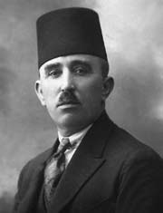 Cafer Tayyar Pasha (Eğilmez)